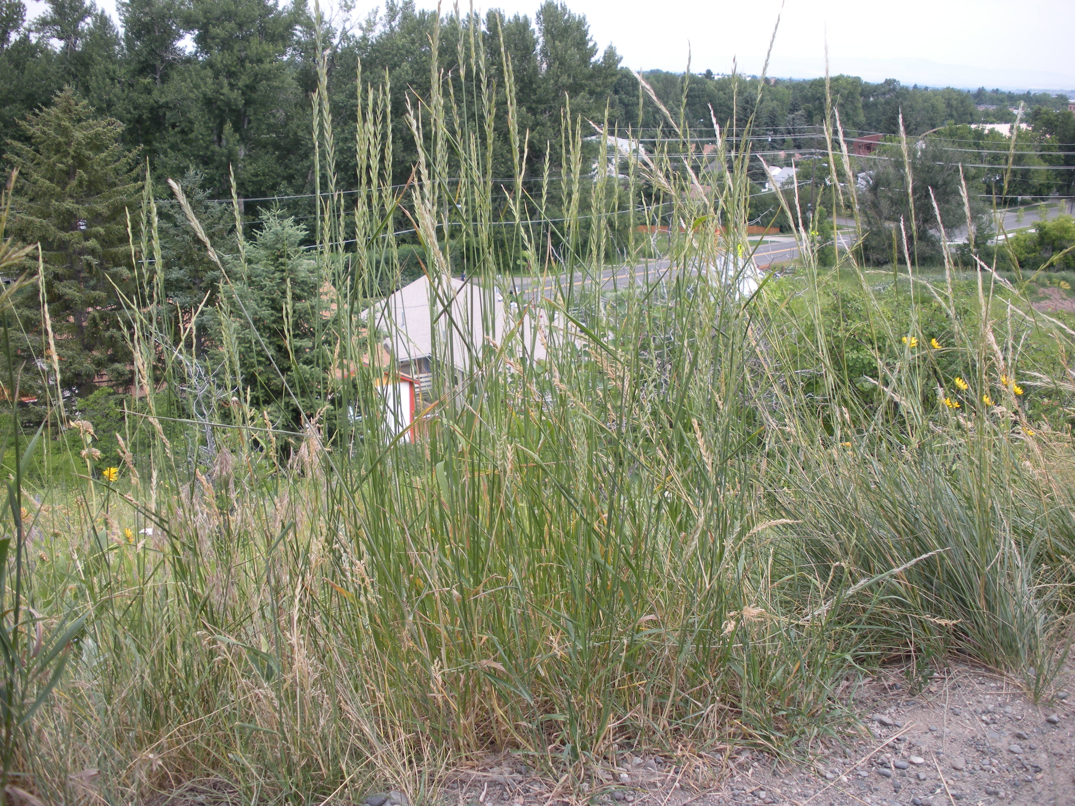 Quackgrass can sometimes appear bunched as along trailside in the lower settings of Burke Park.